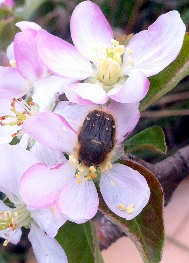 Epicometis hirta eating a Malus domestica flower